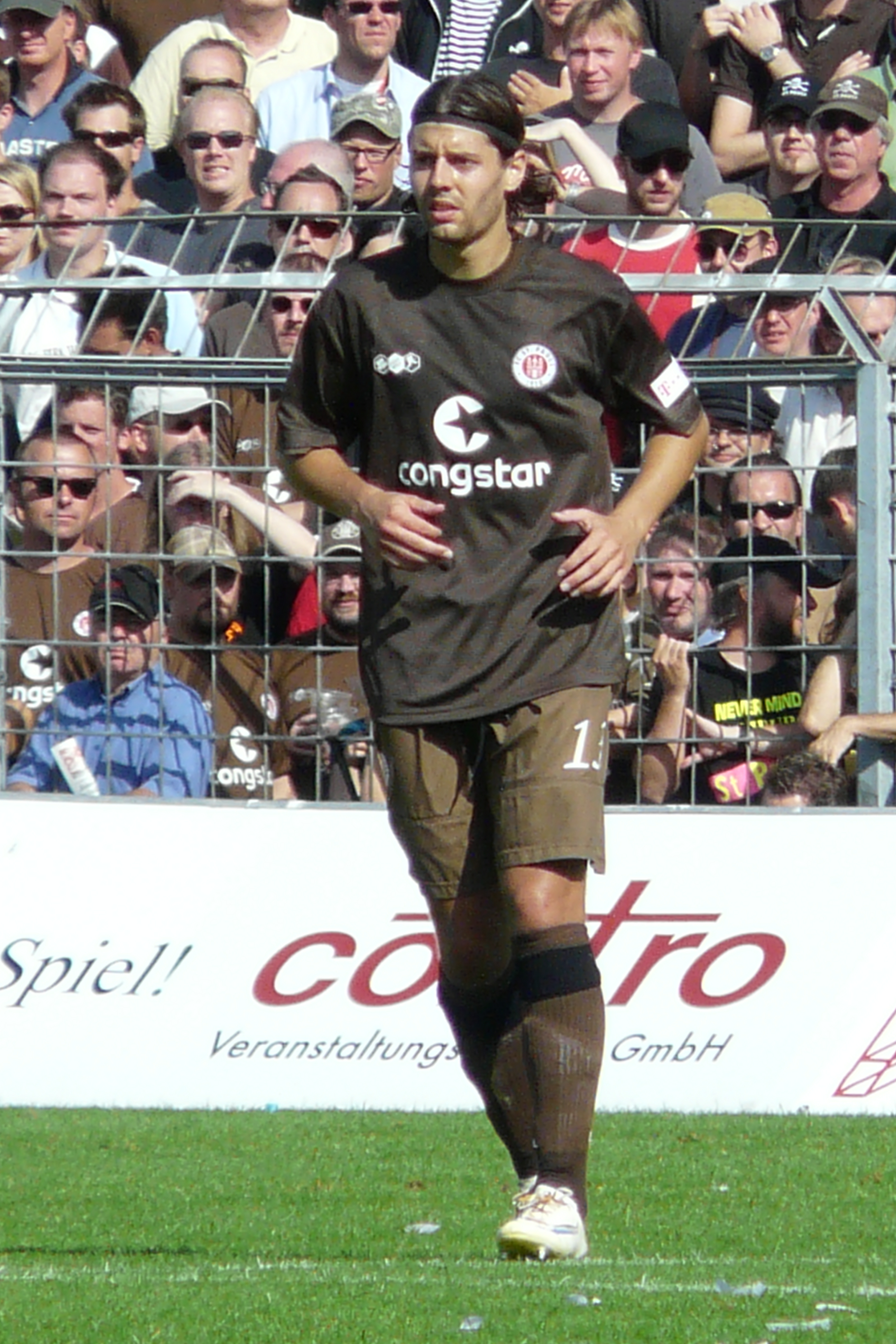 Benjamin Weigelt as Player from FC St. Pauli